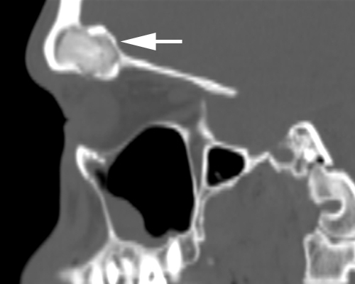 Sagittal scan of a front sinus showing the findings of a juvenile active ossifying fibroma.